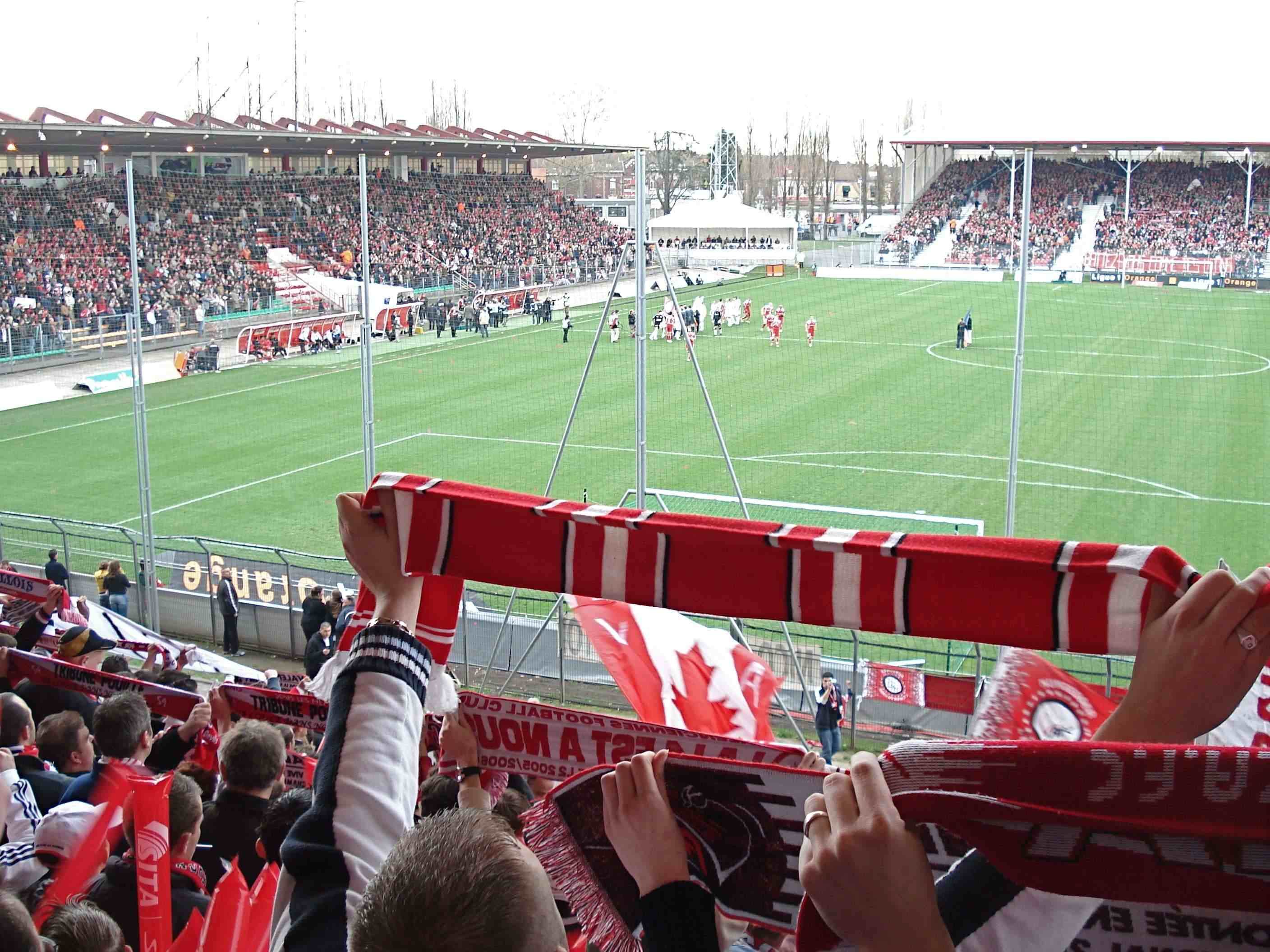 Valenciennes Football Club supporters (Stade Nungesser, 2007)